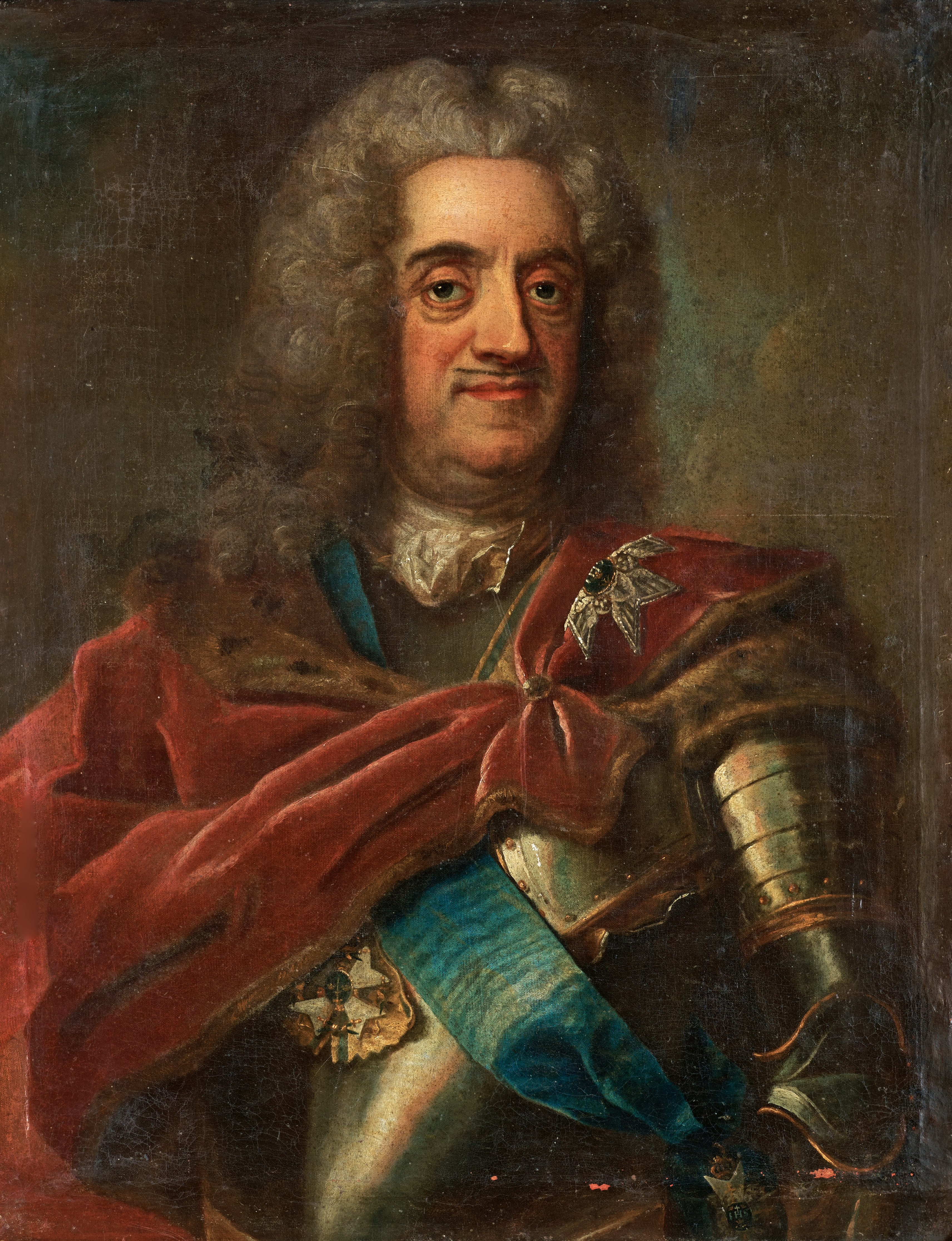 Count Ture Gabriel Bielke (1684-1763)